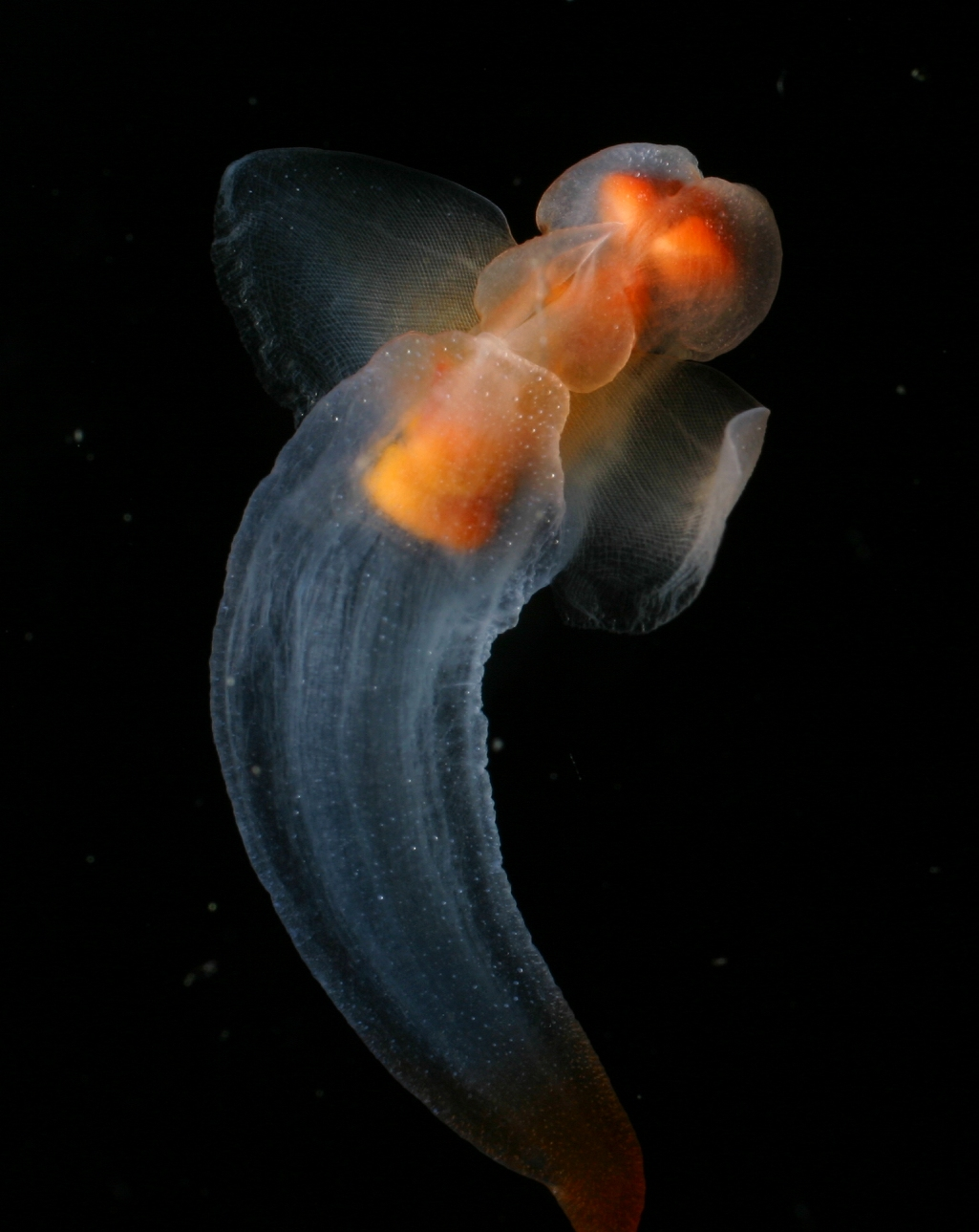 Clione, a shell-less snail known as the Sea Butterfly swims in the shallow waters beneath Arctic ice. Photo from the Beaufort Sea, north of Point Barrow (Alaska)